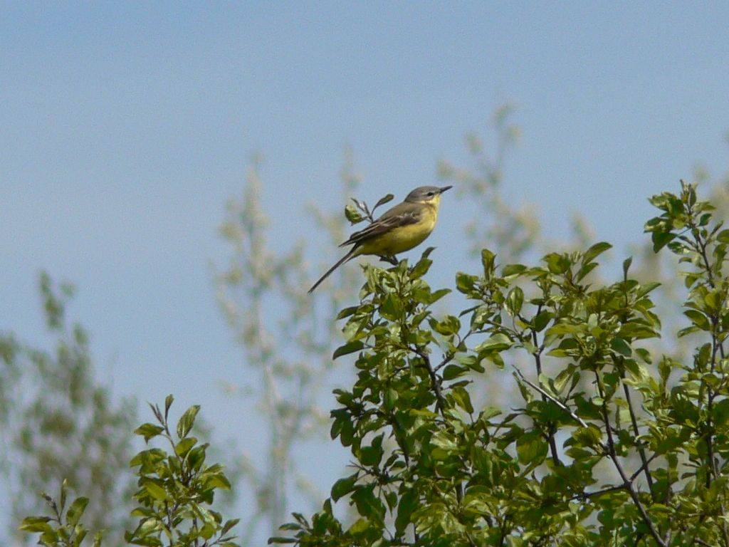 Blue-headed Wagtail